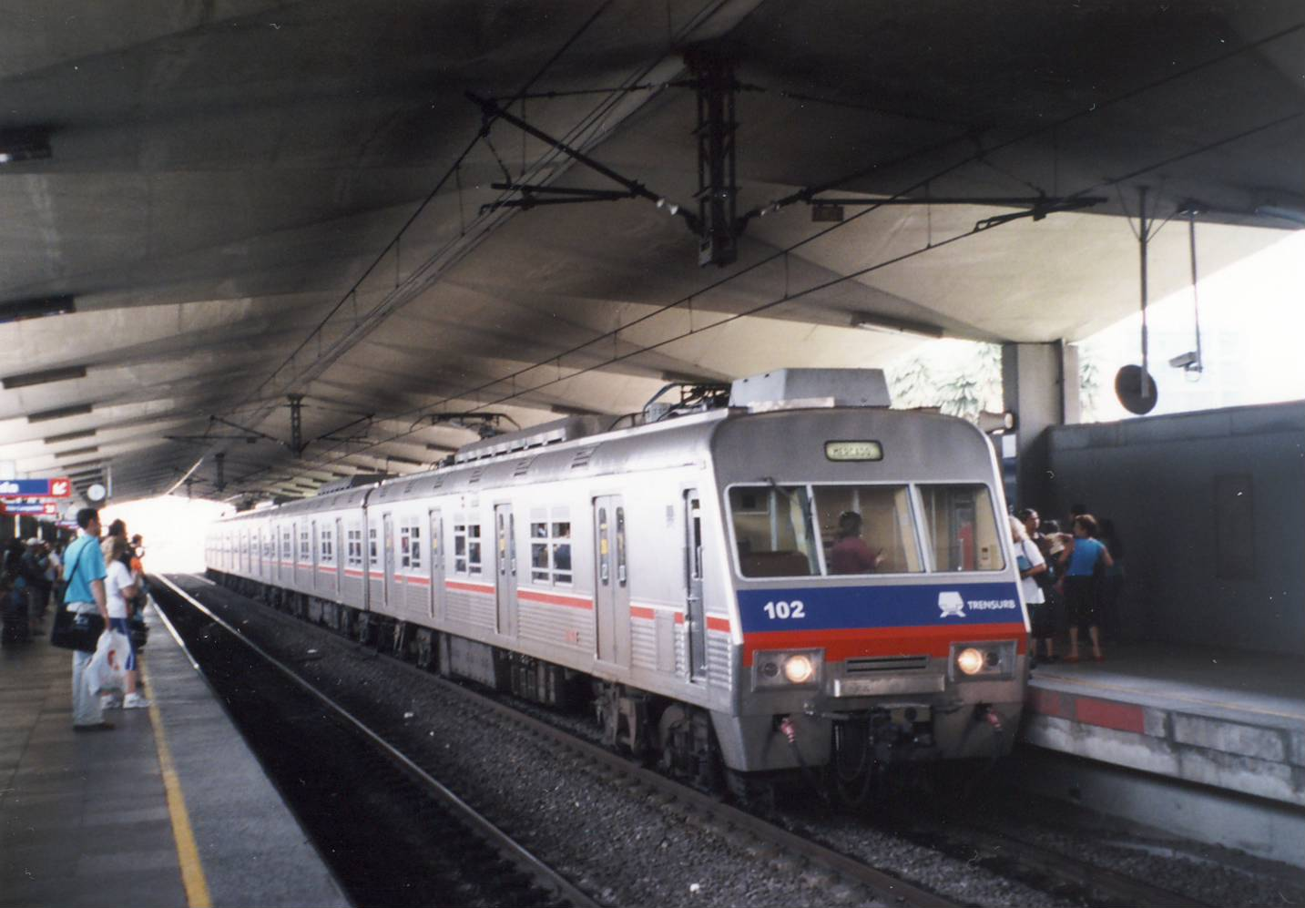 EMU of TRENSURB, as rapid transit system in Porto Alegre, Rio Grande do Sul, Brazil.